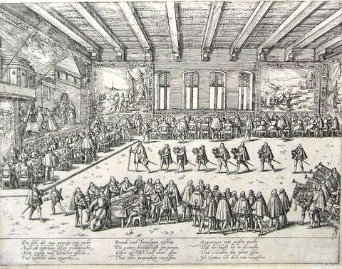 Diederich Graminaeus (1550-1610). Beschreibung derer Fürstlicher Güligscher ec. Hochzeit (Johann Wilhelm von Jülich-Kleve-Berg ∞ Jakobe von Baden-Baden) . Düsseldorf 1585, Nr.